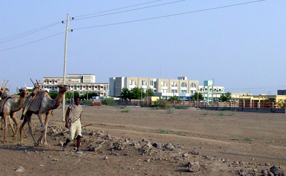 Semera